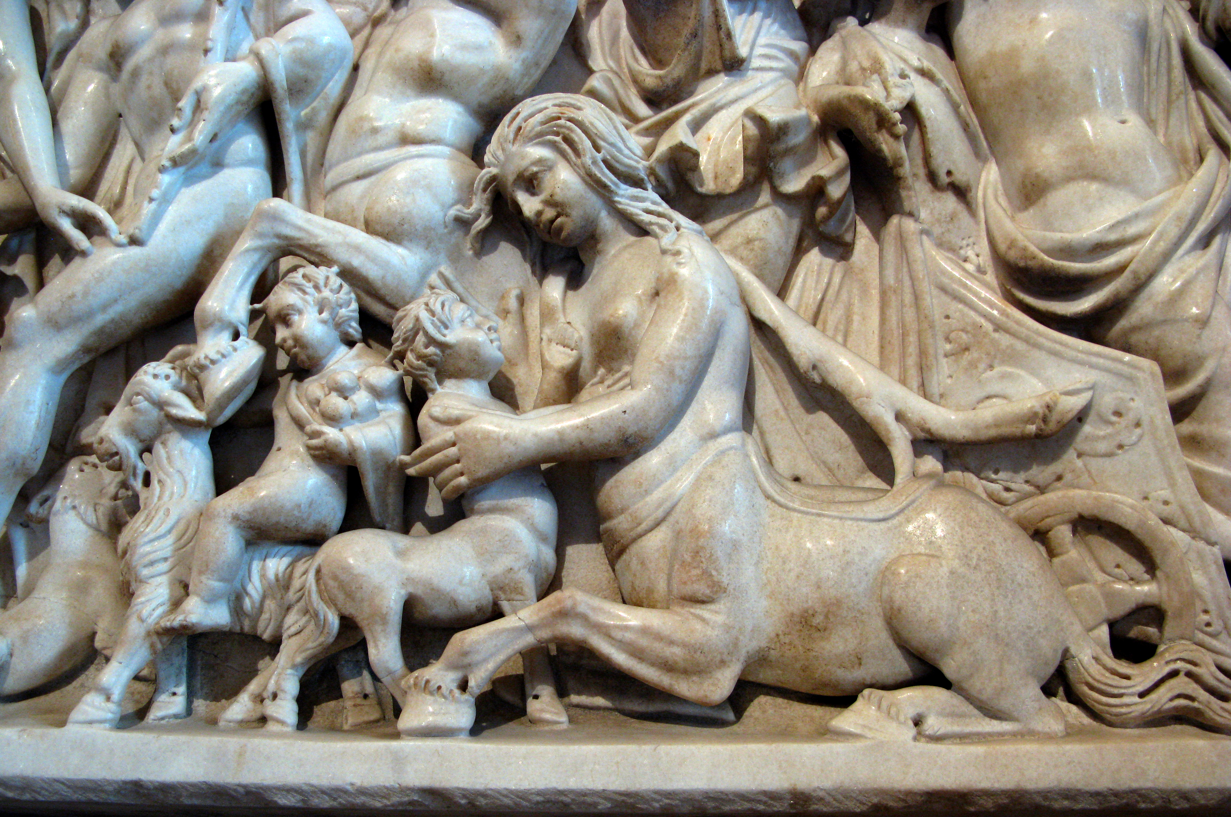 Scene of motherly love between a she-centaur and her son, detail from a relief with the legend of Ariadne and Dionysos. Front panel of a marble sarcophagus, early 3rd century AD. Found in 1804 at Saint-Médard d'Eyrans, France.